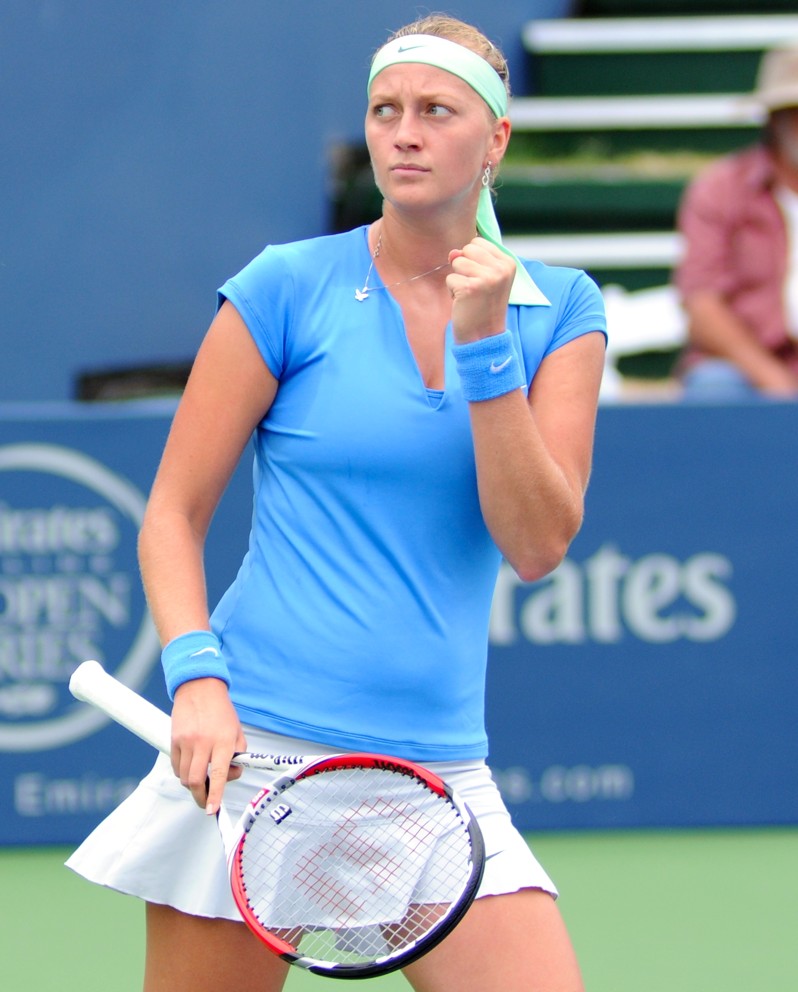 Petra Kvitova - 2nd Round 2013 Southern California Open